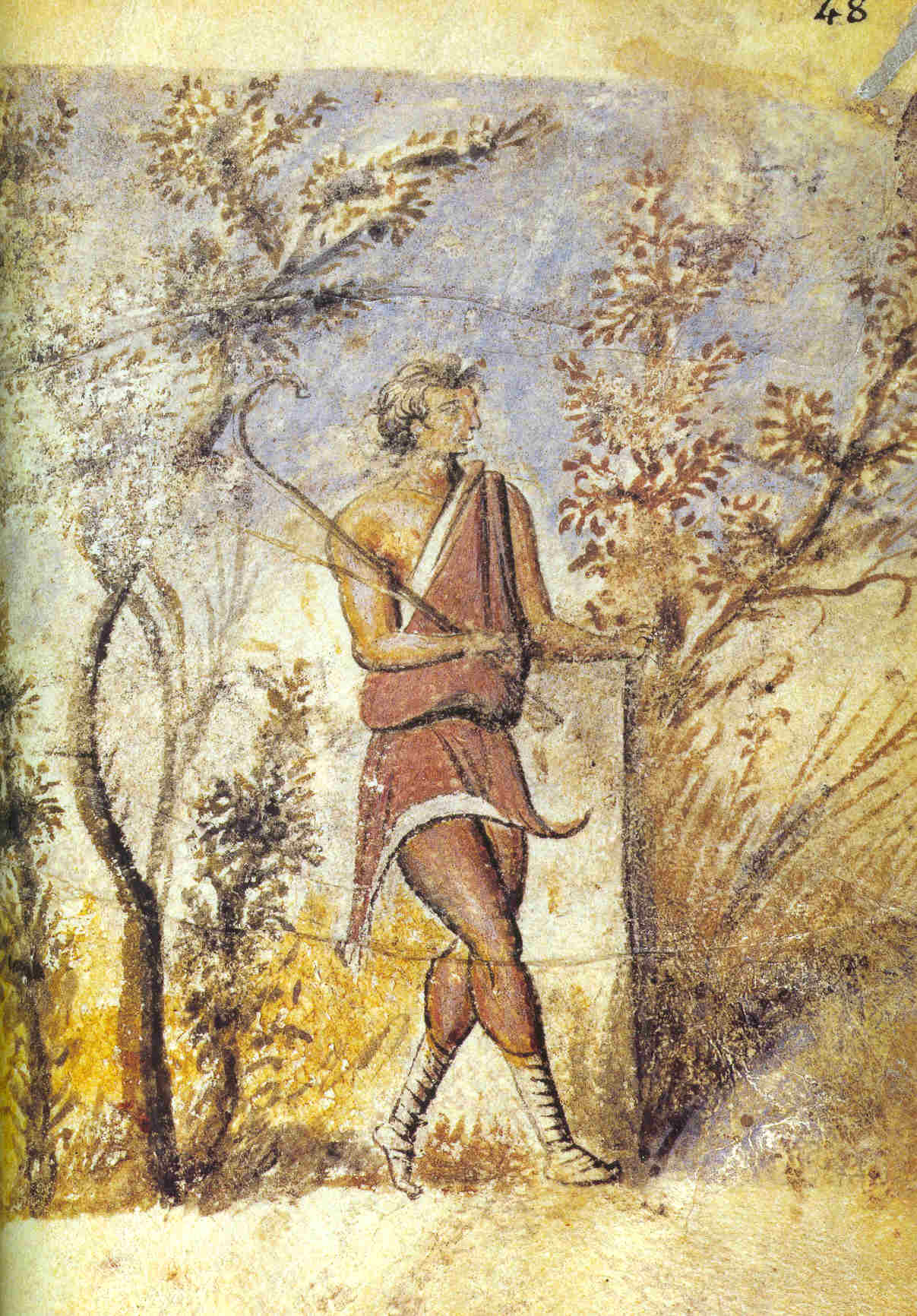 Illustration from an unknown artist for Nikander of Colophon's Theriaca. Manuscript from the 10th century, Constantinople. Picture from the website of a college lecture on early Christian and Byzantine art by Professor Joe Byrne, Belmont University, Nashville, Tennessee, 2001.